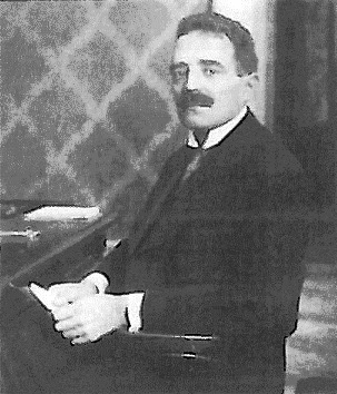 Dezső Pattantyús-Ábrahám (1875–1973) Hungarian politician, Member of Parliament for Karcag, Prime Minister of the Counter-revolutionary Government in Szeged during the Hungarian Soviet Republic (1919)